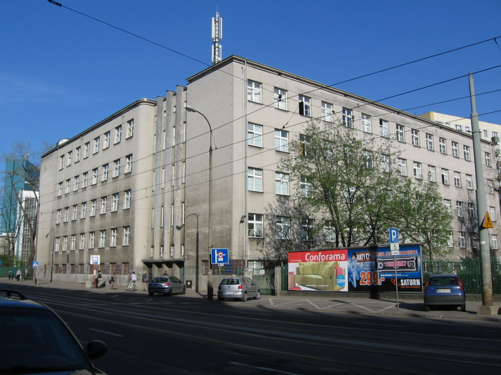 Gestapo headquarters building at Ul. Stawki nr 5/7 and near Umschlagplatz.